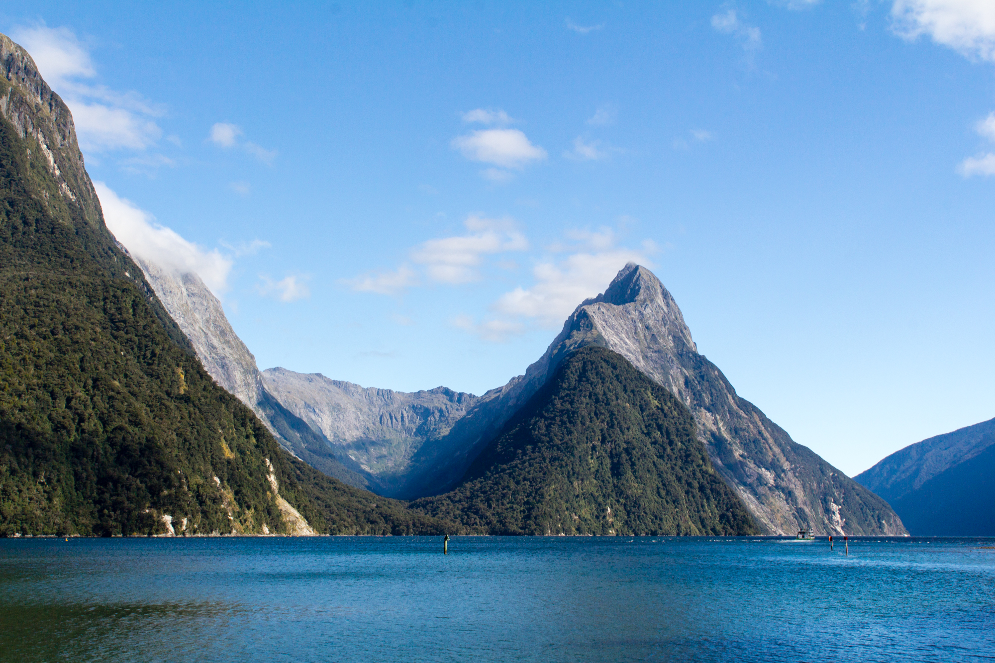 At the Milford Sound, New Zealand. Mitre Peak in the center with Sinbad Gully to its left